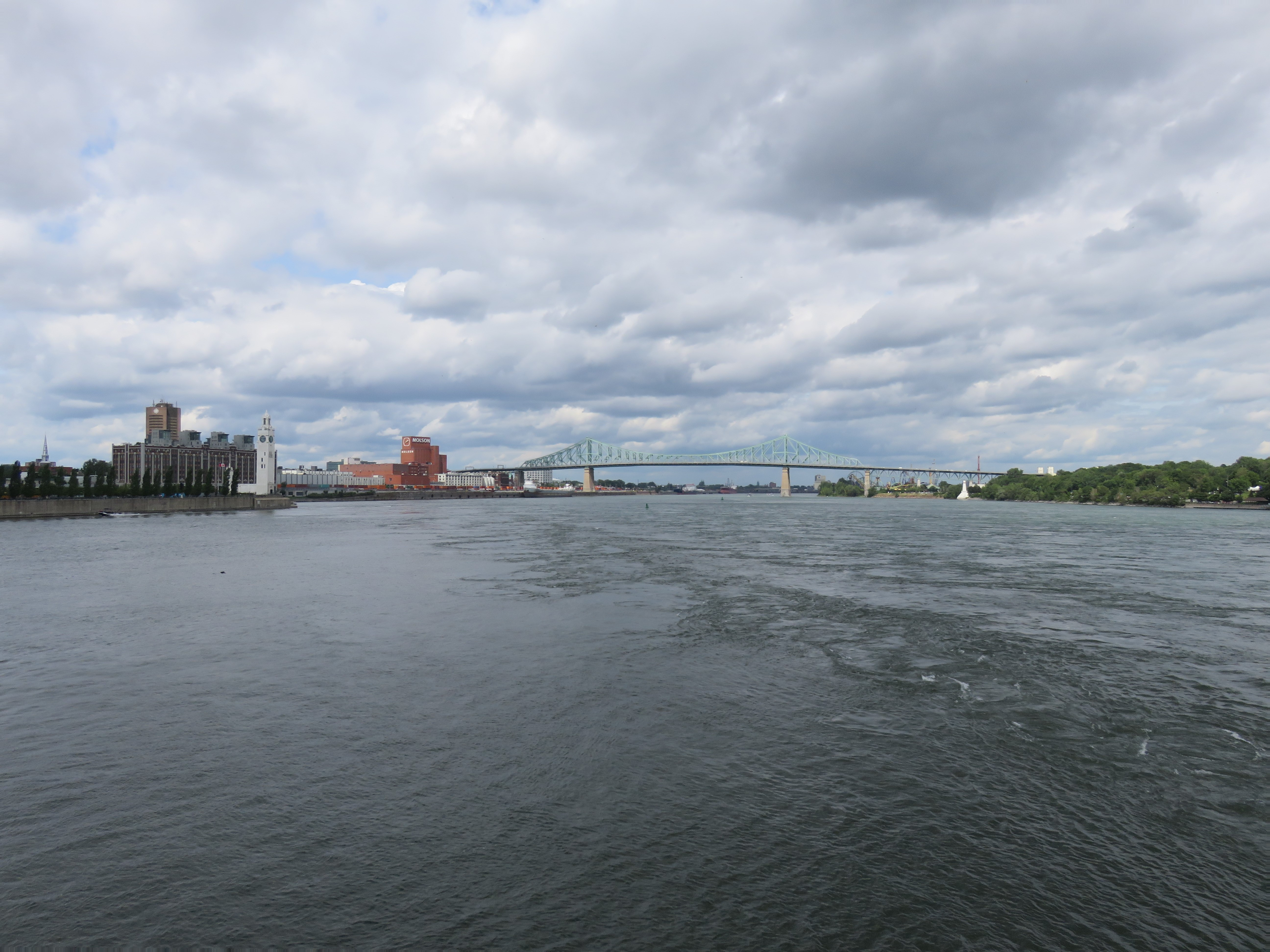 View on the Old Port of Montreal and the Jacques-Cartier Bridge from the Parc de Dieppe. One can see on the right the turbulence of the water due to the Courant Sainte-Marie ( Current).